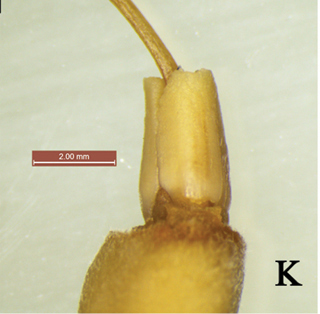 Amomum nilgiricum, ovary with epigynous glands and style